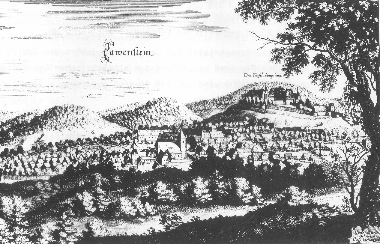 historical engraving of Lauenstein, Lower Saxony, Germany